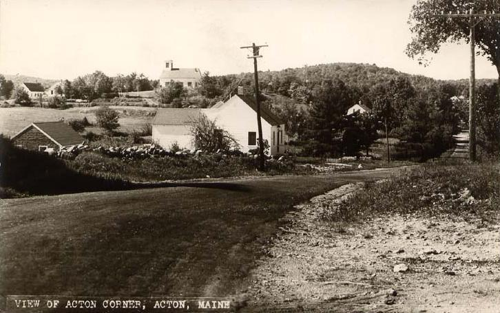 View of Acton Corner, Acton, Maine